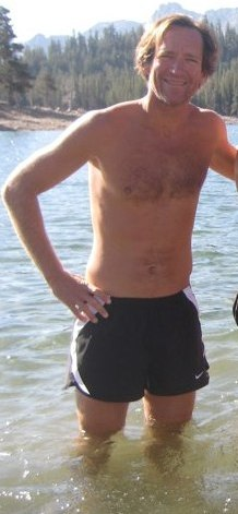 Jeff Atkinson, in Mammoth Lakes, California, icing his legs with his cropped-out teammates.